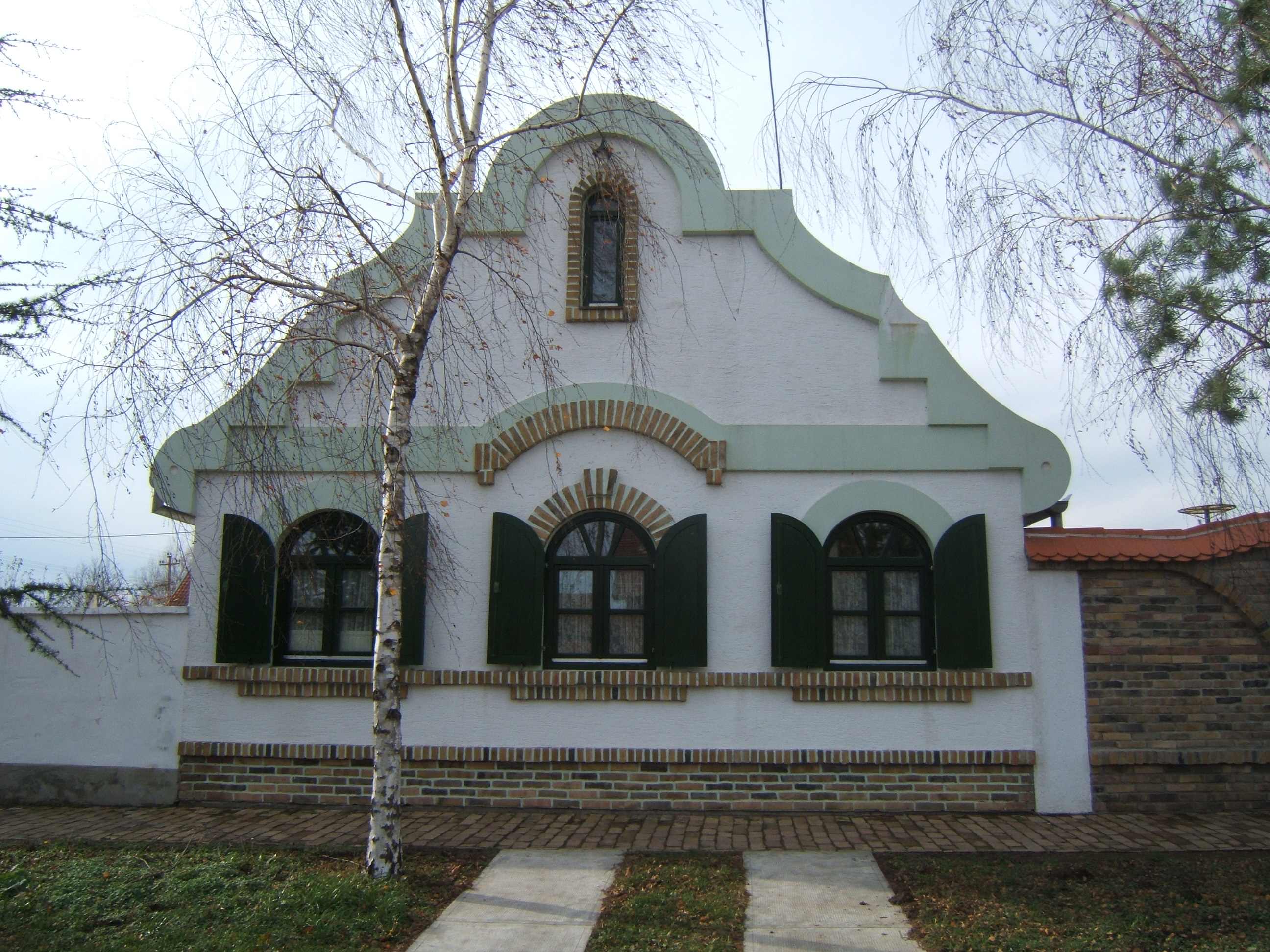 Birth house of Jovan Veselinov Žarko Српски (ћирилица): Rodna kuća Jovana Veselinova Žarka